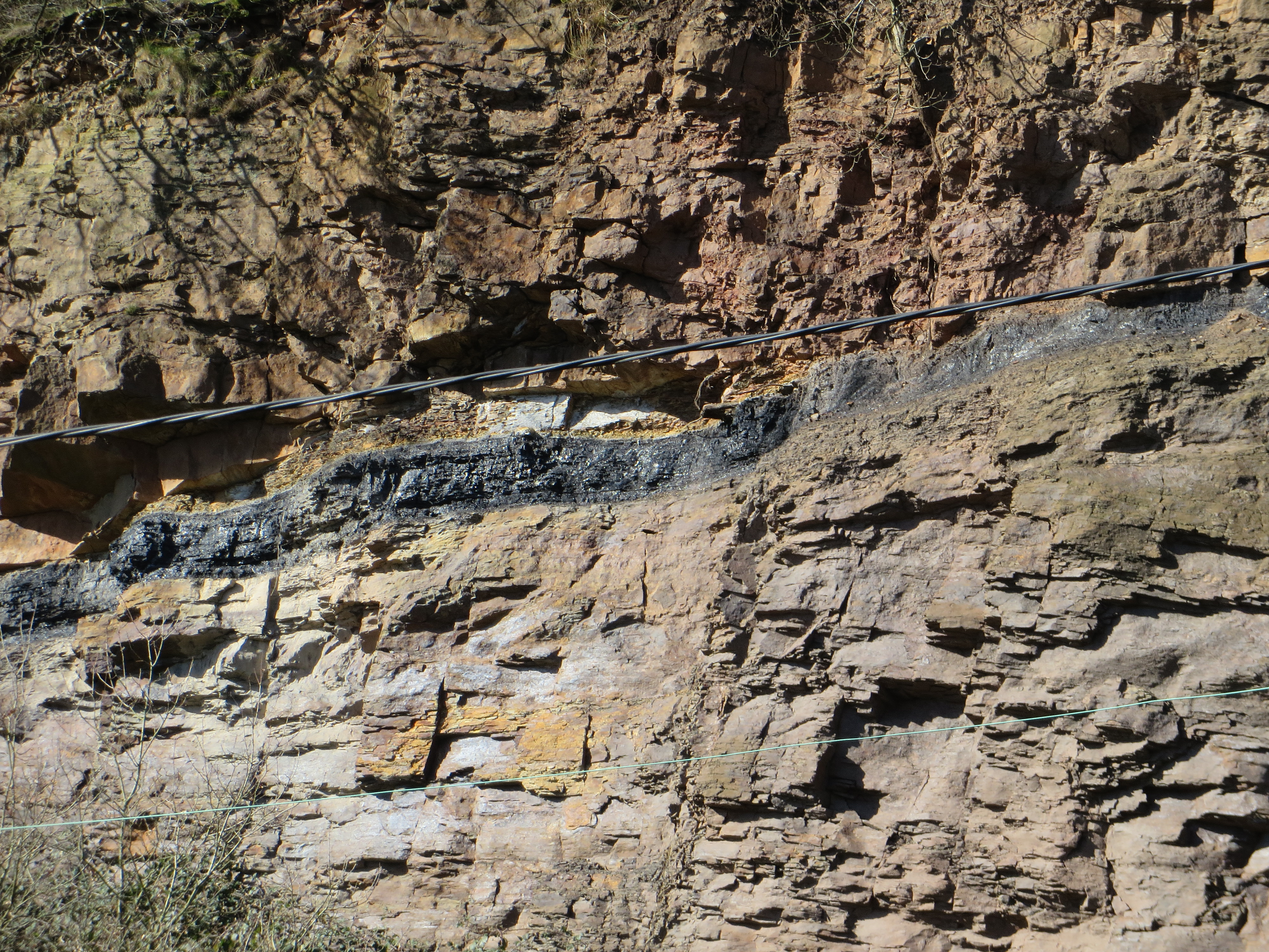 Quarry at Herbederstraße with sand- and mudstones as well as coal seam of the Witten Formation (Westfalian A, Pennsylvanian) of the variscan foreland basin of the Ruhrgebiet (Ruhr Carboniferous), Witten, North Rhine-Westphalia, western Germany, protected ground site no. 27 of the town of Witten. This is a photograph of an archaeological site.